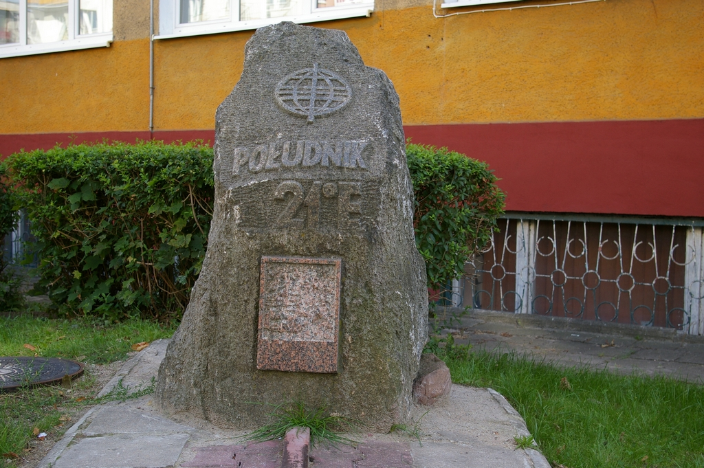 21E meridian in Szczytno